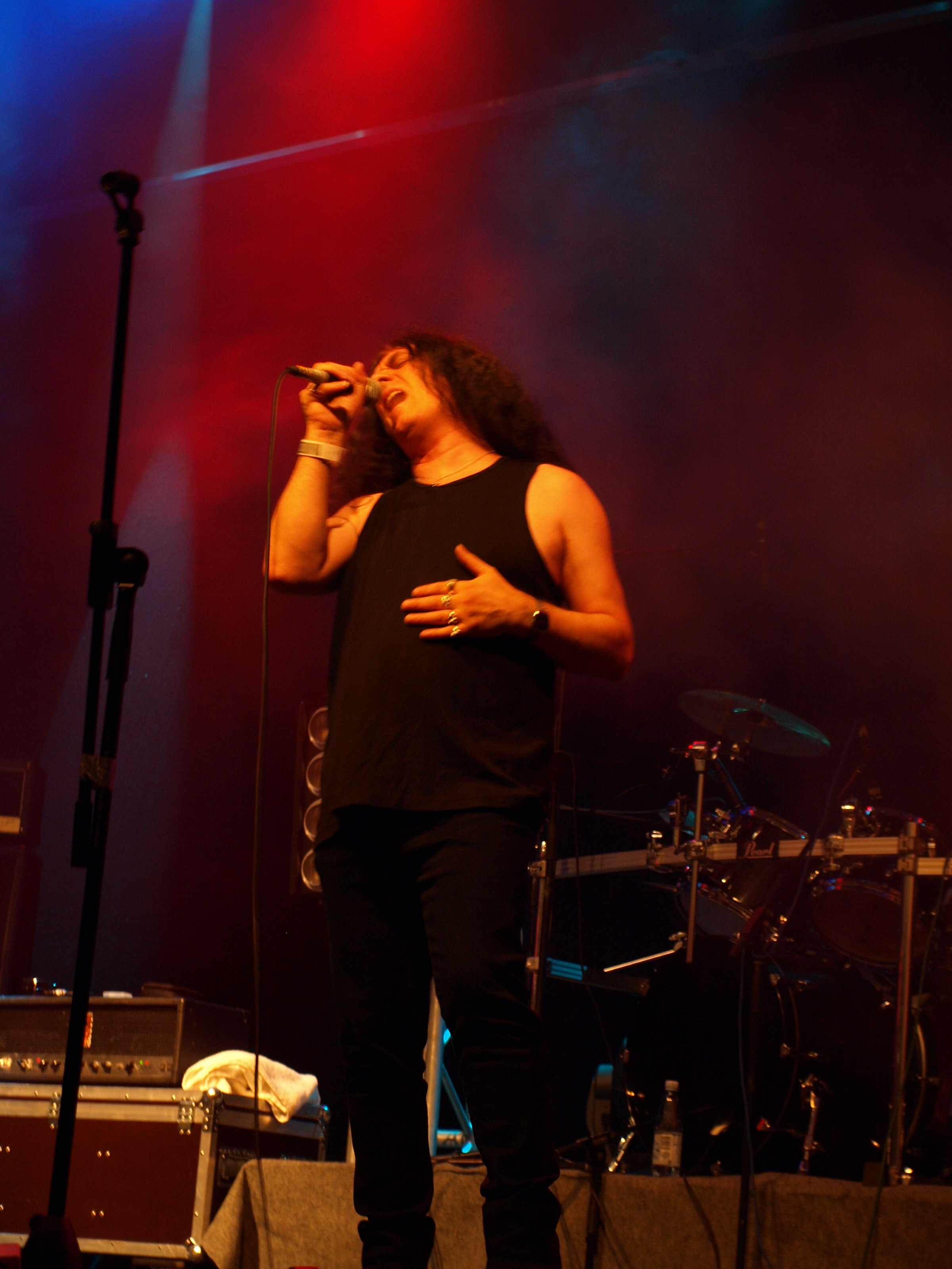 British heavy metal band Blitzkrieg live at Jalometalli 2008 in Oulu.